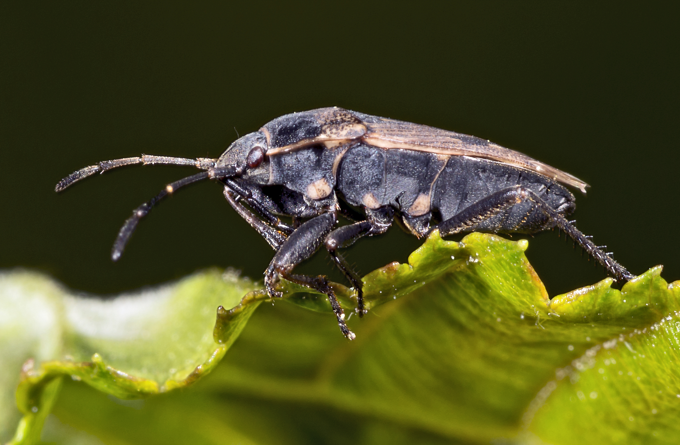 Graptopeltus lynceus, side view